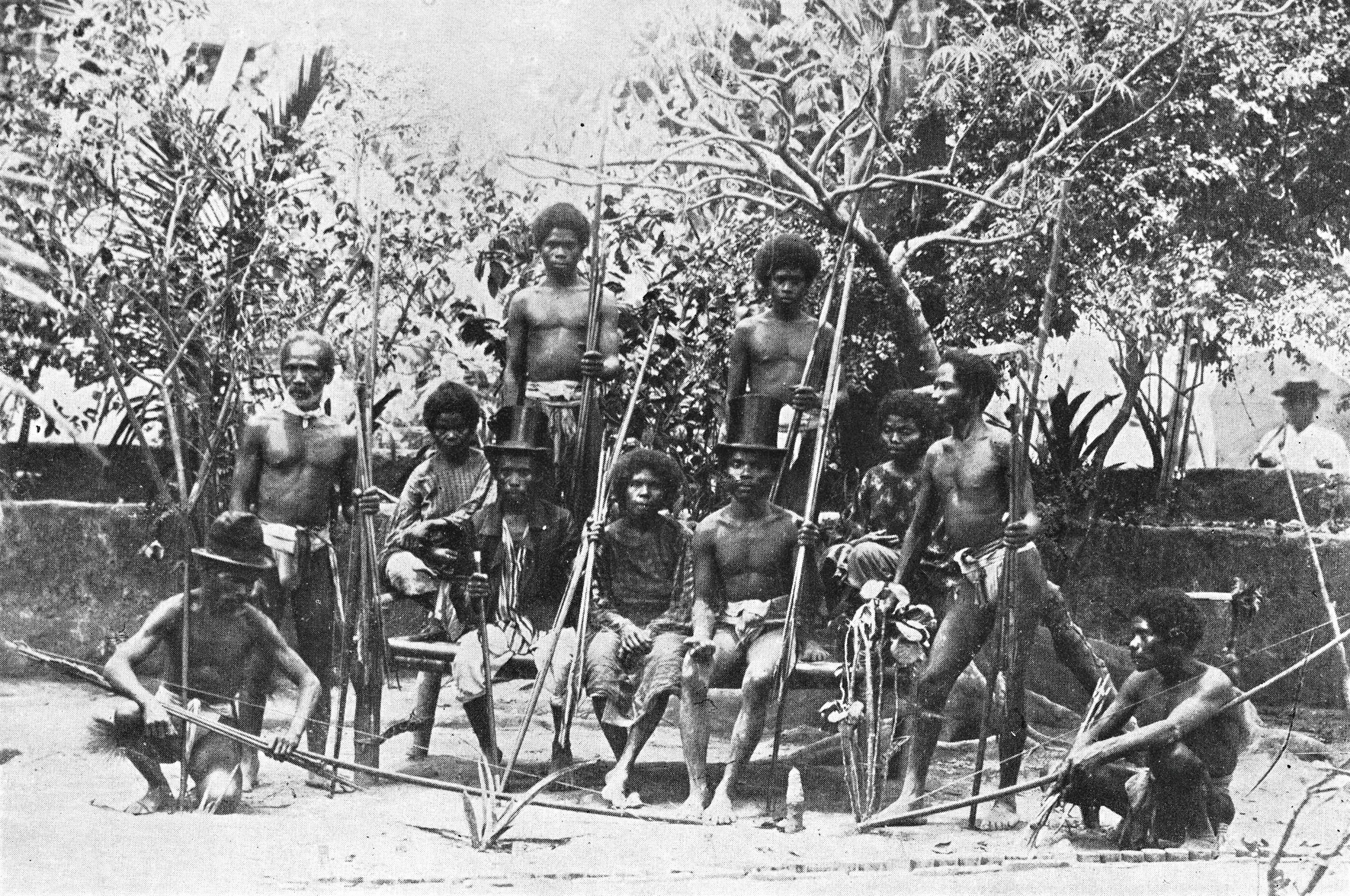 Original caption (cropped out): Typical group of Negritos Description (cropped out) Throughout the Philippine Islands are found mountain tribes known as Negritos. They are the aborigines, and are doubtless of African descent. They are black with kinky hair. About forty or fifty families of them usually live together. Their weapons are of bamboo, and they poison their arrows and spears. There are over 600,000 of them in the islands.